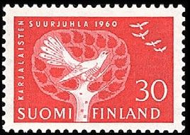 Carelians and their festival - 20 years anniversary